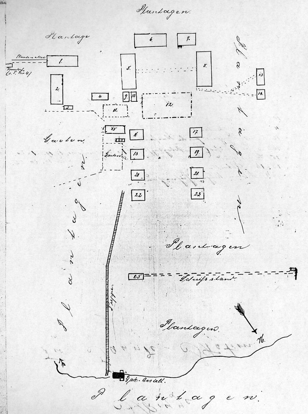 A sketch of the Jaunde-Station in the Cameroon Hinterland by the early days